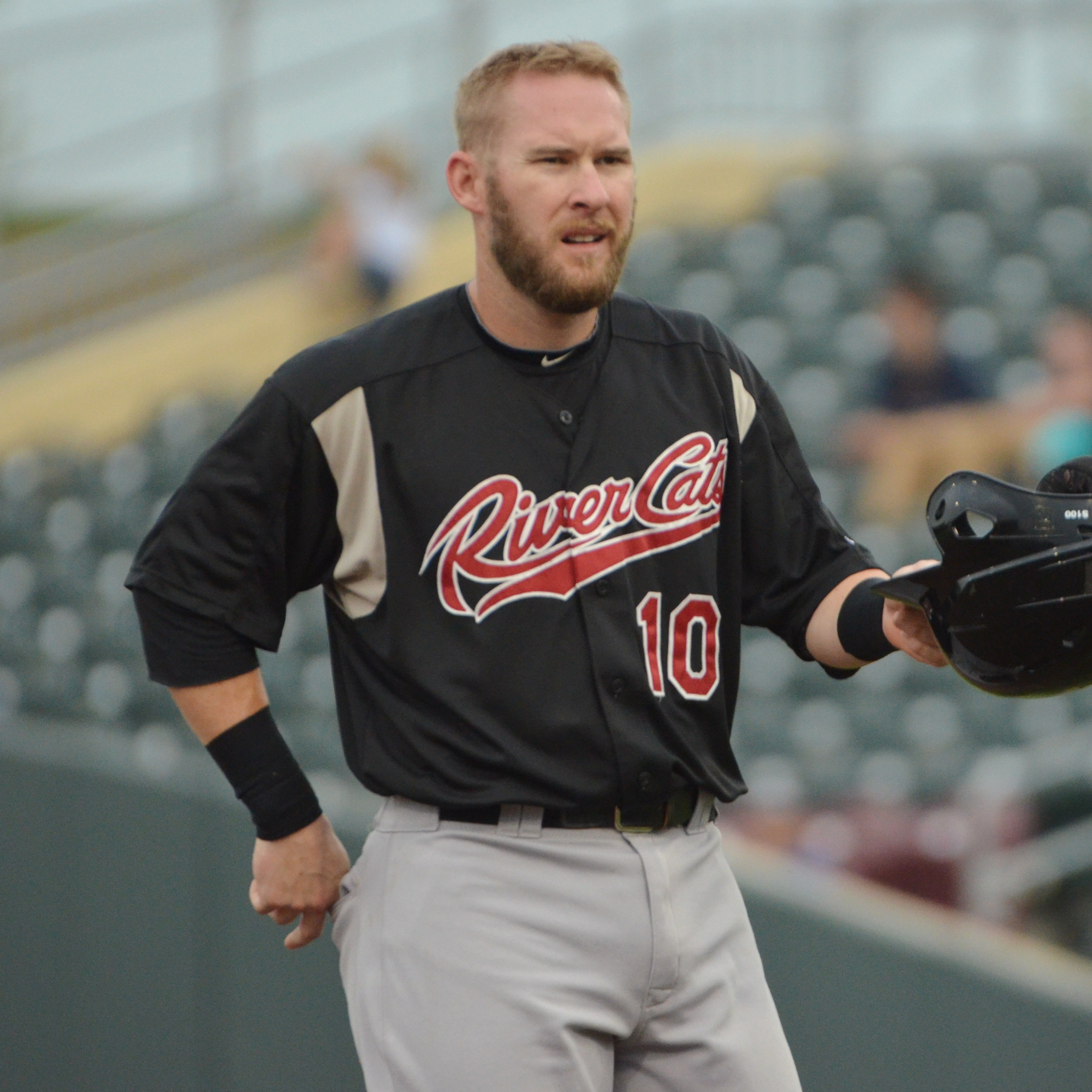 Daric Barton